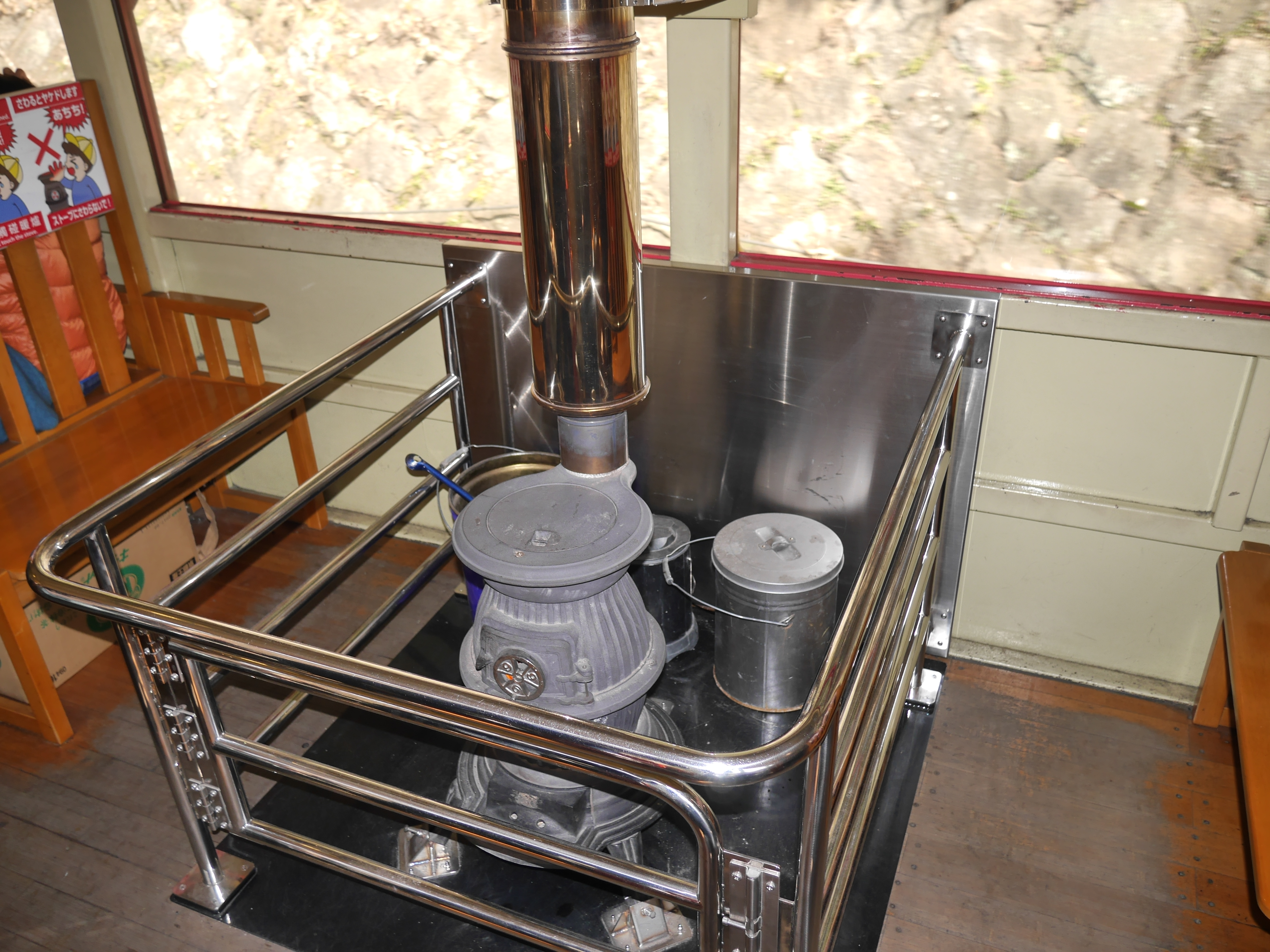 Potbelly stove on Sagano Scenic Railway SK100-11. The stove put on the hauling carriage at the end of December and beginning of March